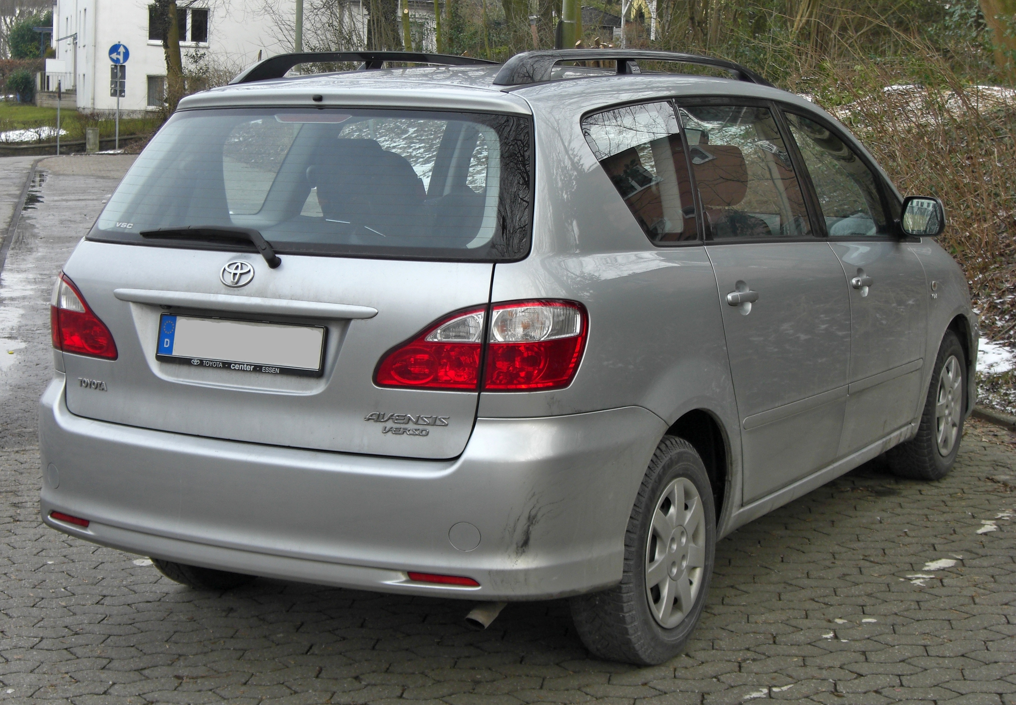 Toyota Avensis Verso